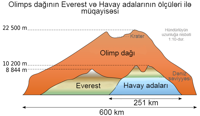 Comparison diagram between Olympus Mons (on planet Mars), the highest mountain in the solar system, and the highest mountains on Earth : Mauna Kea (Hawaii island) and Everest.